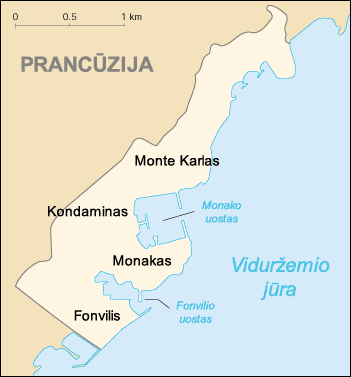 Map of Monaco (Lithuanian version) based on Image:Monaco-CIA WFB Map.png